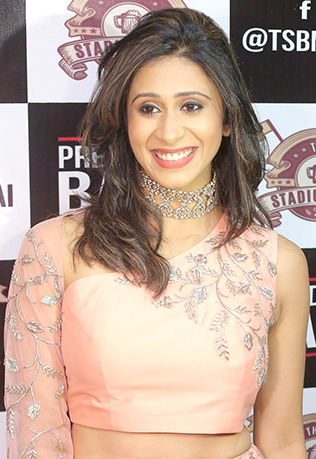 Kishwer Merchant graces Pre Diwali bash at The Stadium Bar